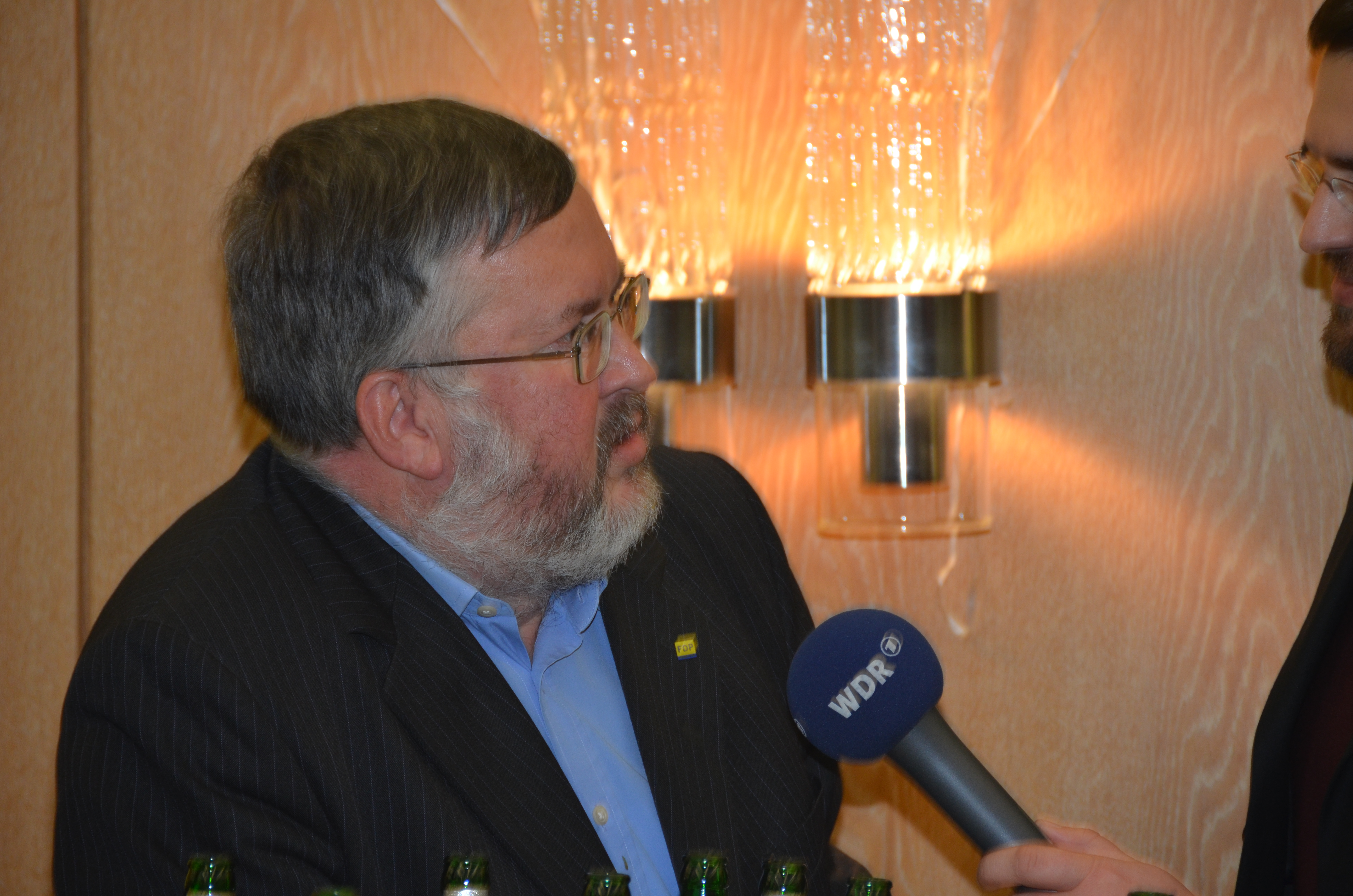 Wikipedia im Landtag – Niedersachsen 20. Januar 2013 in Hannover am WahlabendDieses Bild entstand während der Landtagswahl in Niedersachsen 2013 im Landtag Hannover. This work is free and may be used by anyone for any purpose. If you wish to use this content, you do not need to request permission as long as you follow any licensing requirements mentioned on this page.